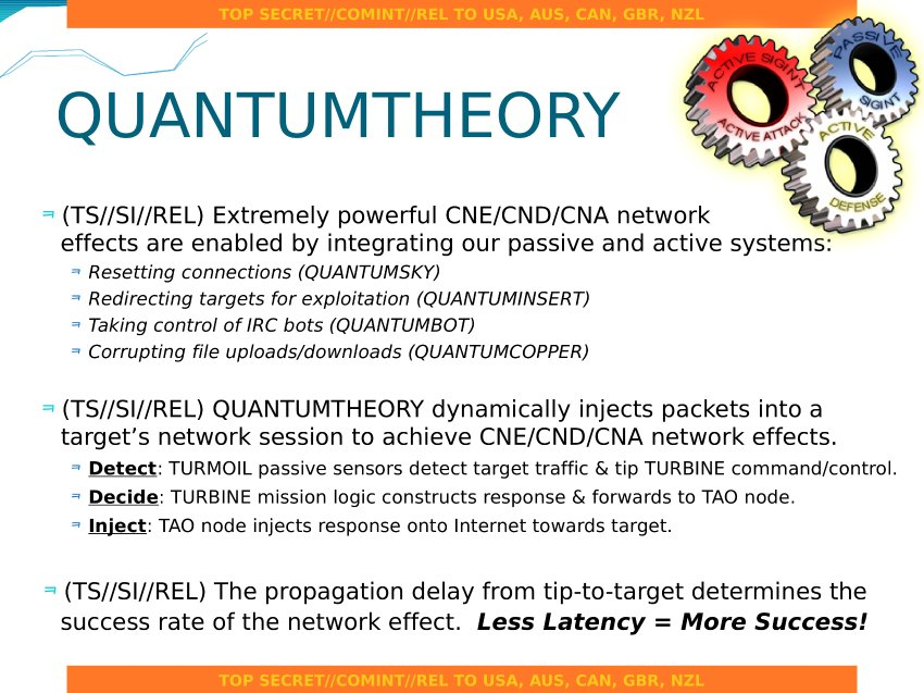 Summary slide for NSA's QUANTUMTHEORY